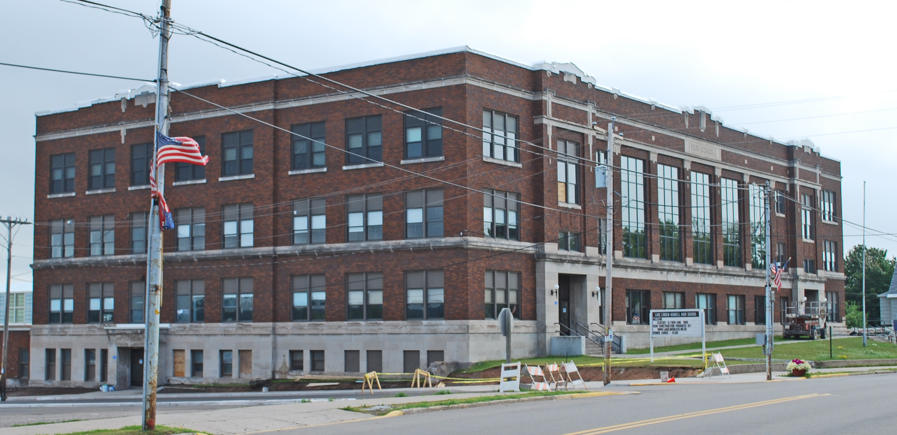 Lake Linden–Hubbell High School, Lake Linden MI Historic District